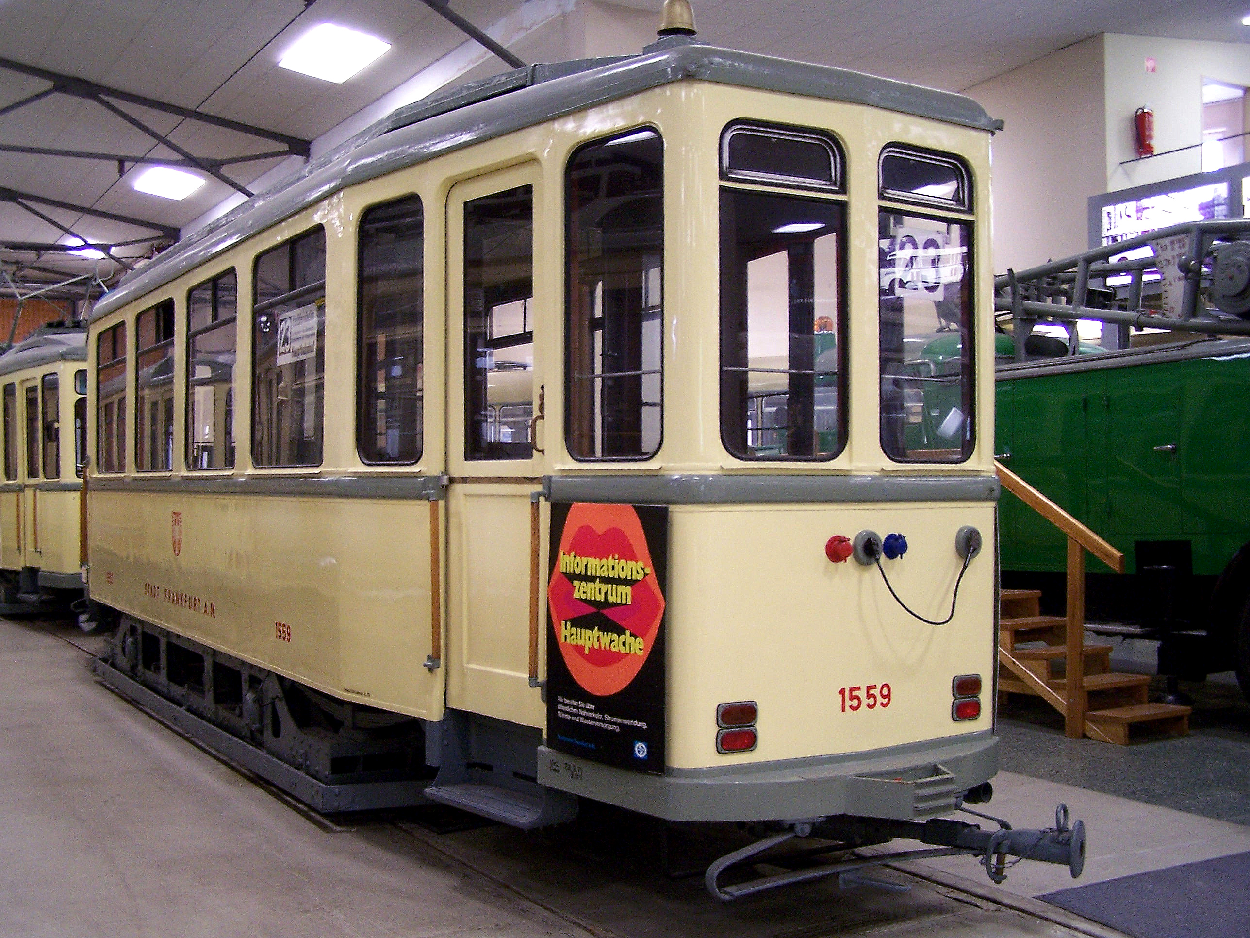 tram trailer type h No 1559 in the Frankfurt on Main Transport Museum in Frankfurt am Main--Schwanheim